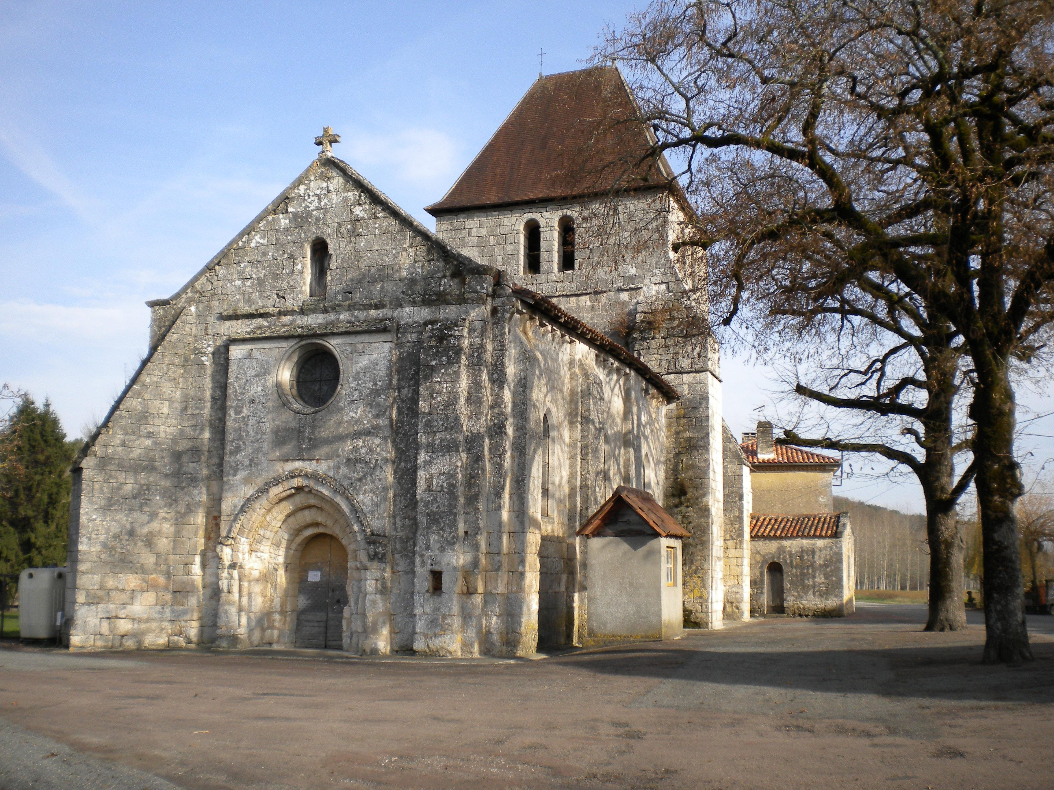 The village church of Champeau(x), commune of Champeaux-et-la-Chapelle-Pommier, Dordogne, France.